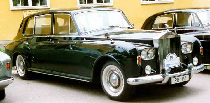 Rolls-Royce Phantom VI Limousine